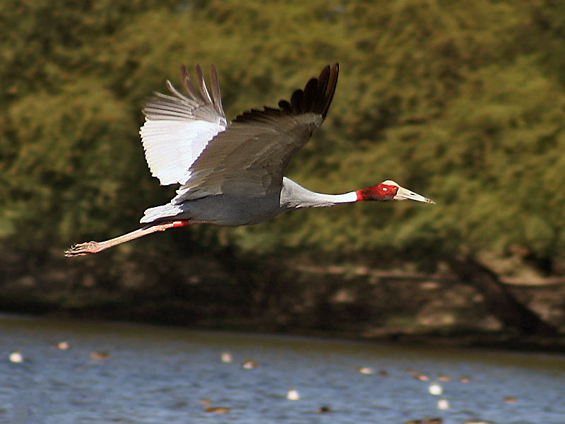 Sarus Crane Grus antigone at Bharatpur, Rajasthan, India.